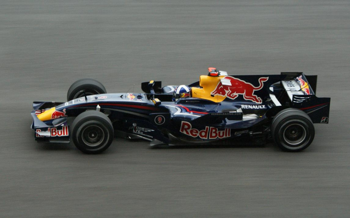 David Coulthard driving for Red Bull Racing at the 2008 Malaysian Grand Prix.